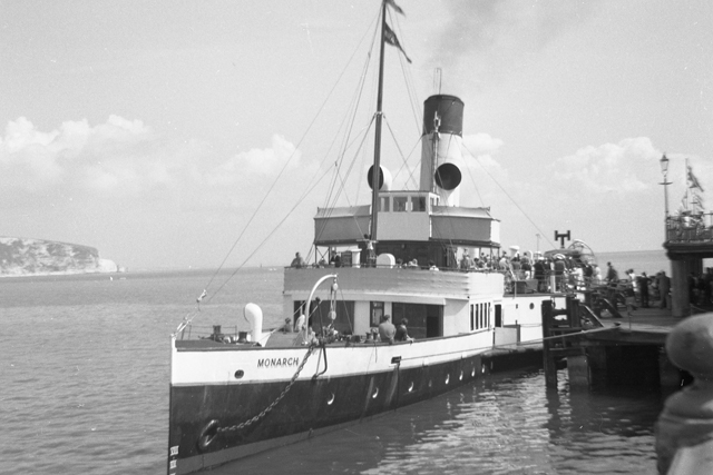 Paddle steamer moored at Swanage pier